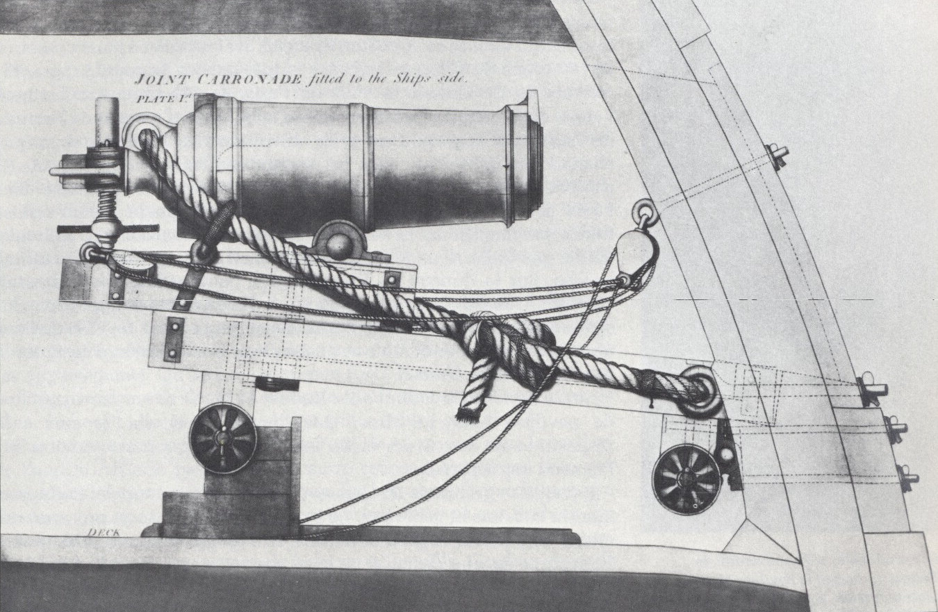 Schemarics of a carronade